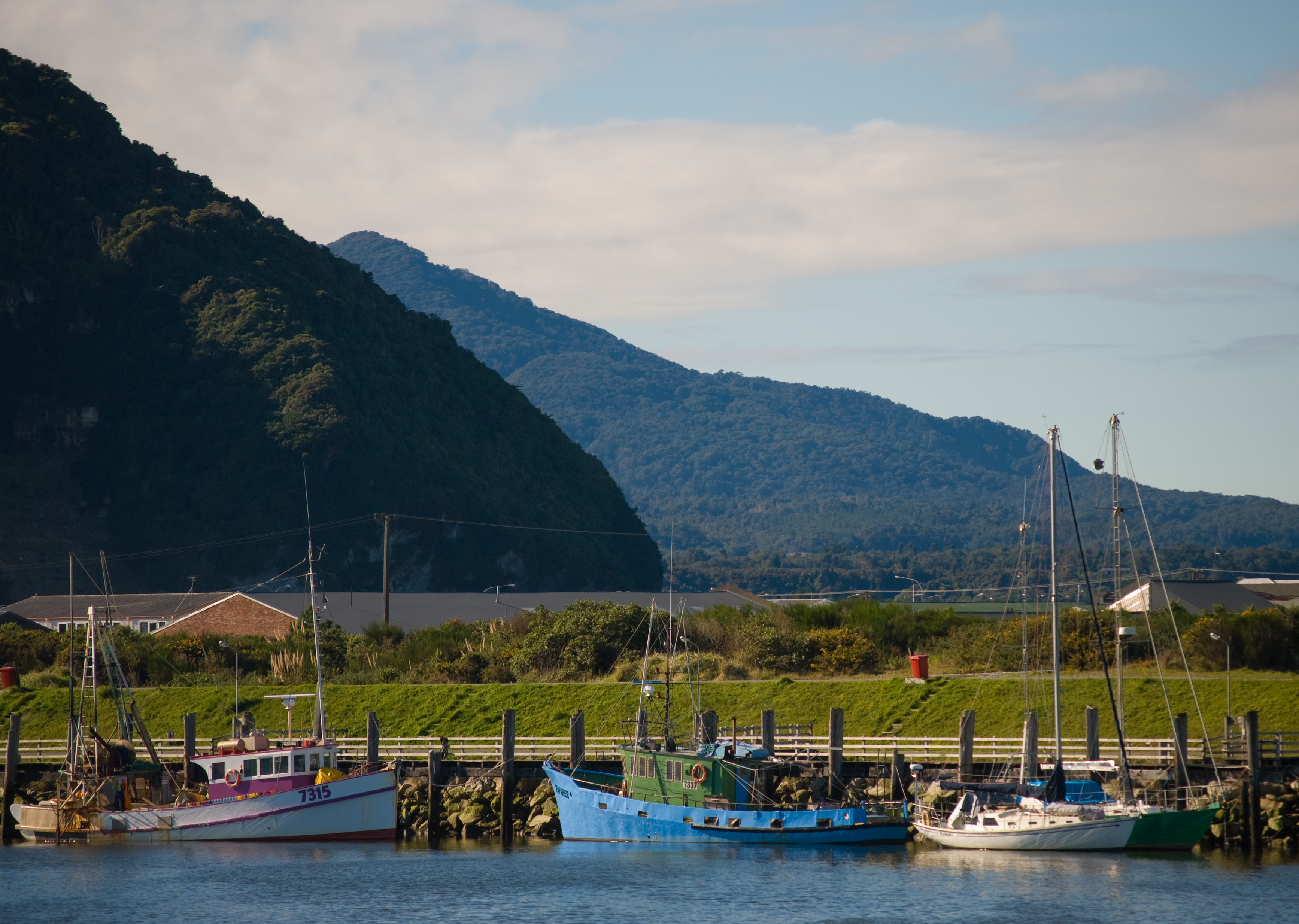 Blaketown Lagoon, between Blaketown and Greymouth, West Coast, New Zealand.